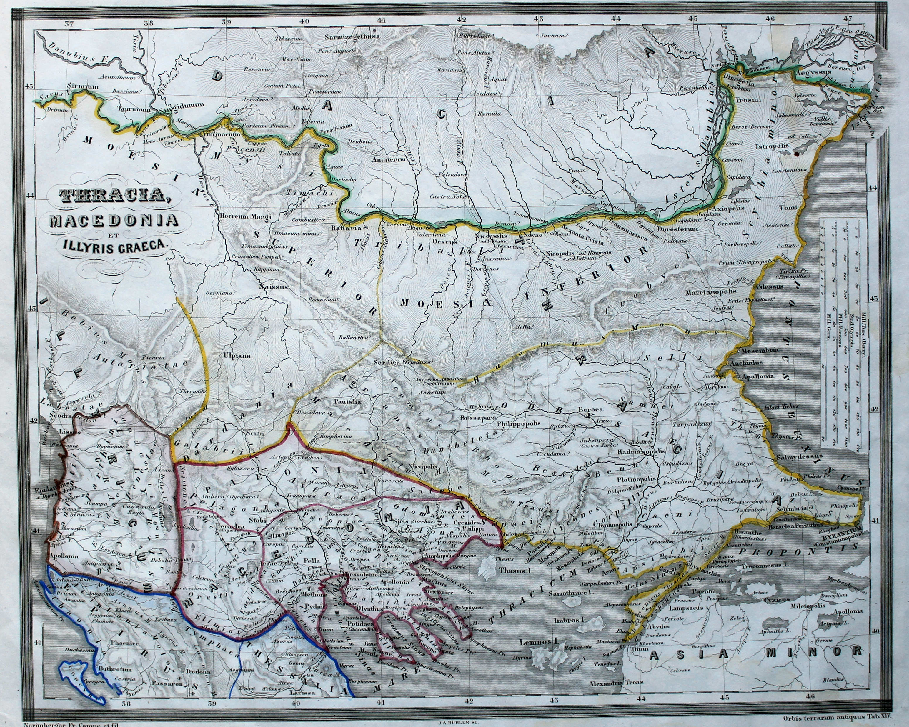 Reichard, Orbis terrarum antiquus (in usum juventutis), ca. 1861 14. Thracia, Macedonia et Illyris Graeca XL Thracie, Macedonie en Grieks Illyrie / Thracia, Macedonia and Greek Illyria